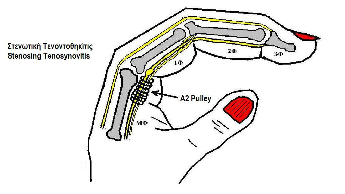 Stenosing Tenondosynovitis